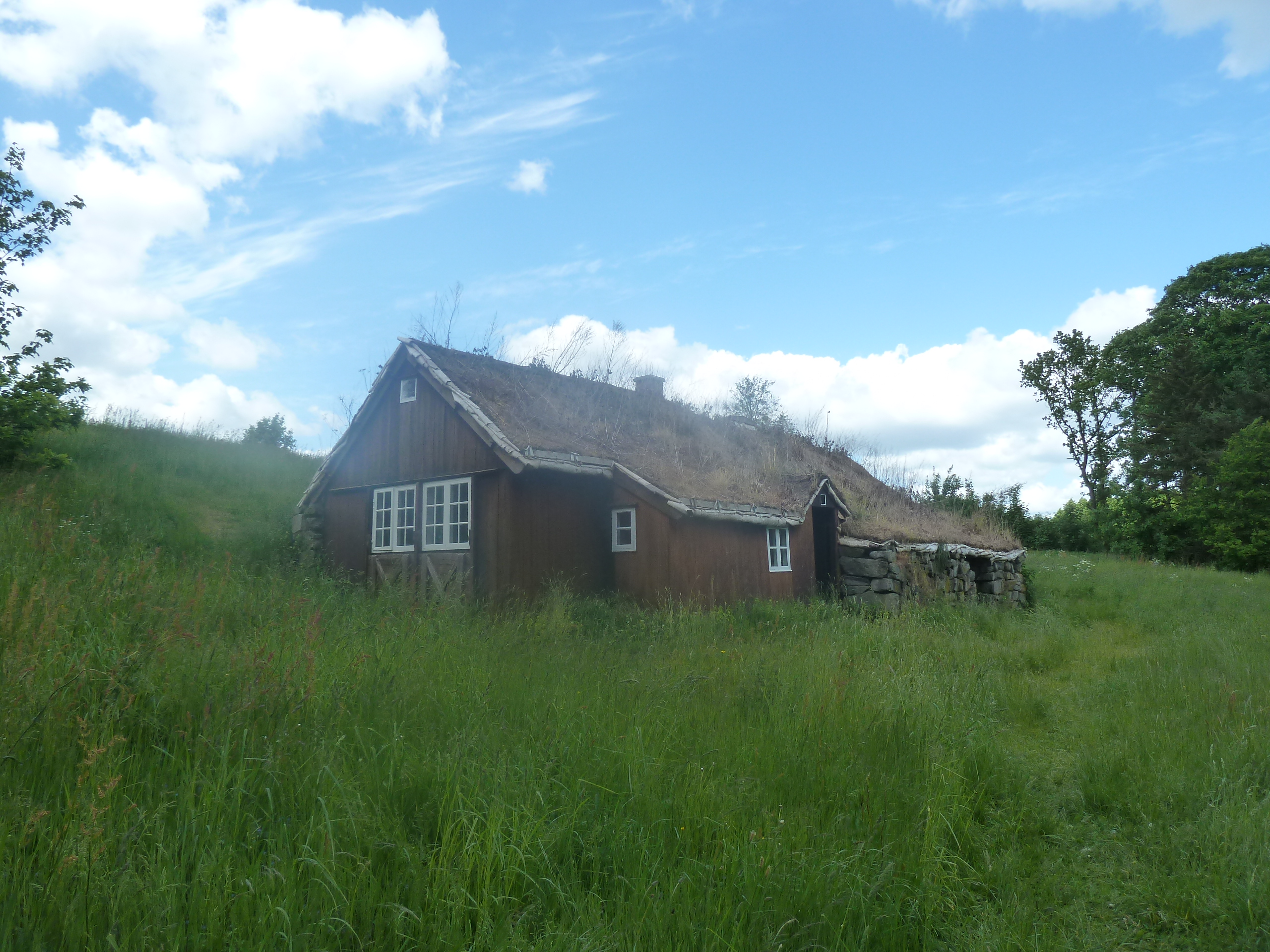 Farms from the Faroe Islands, now on Frilandsmuseet (the open air museum) north of Copenhagen.